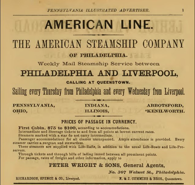 An American Line advertisement offering passage on the Pennsylvania-class steamers Ohio, Illinois, Pennsylvania and Indiana, plus two chartered vessels.